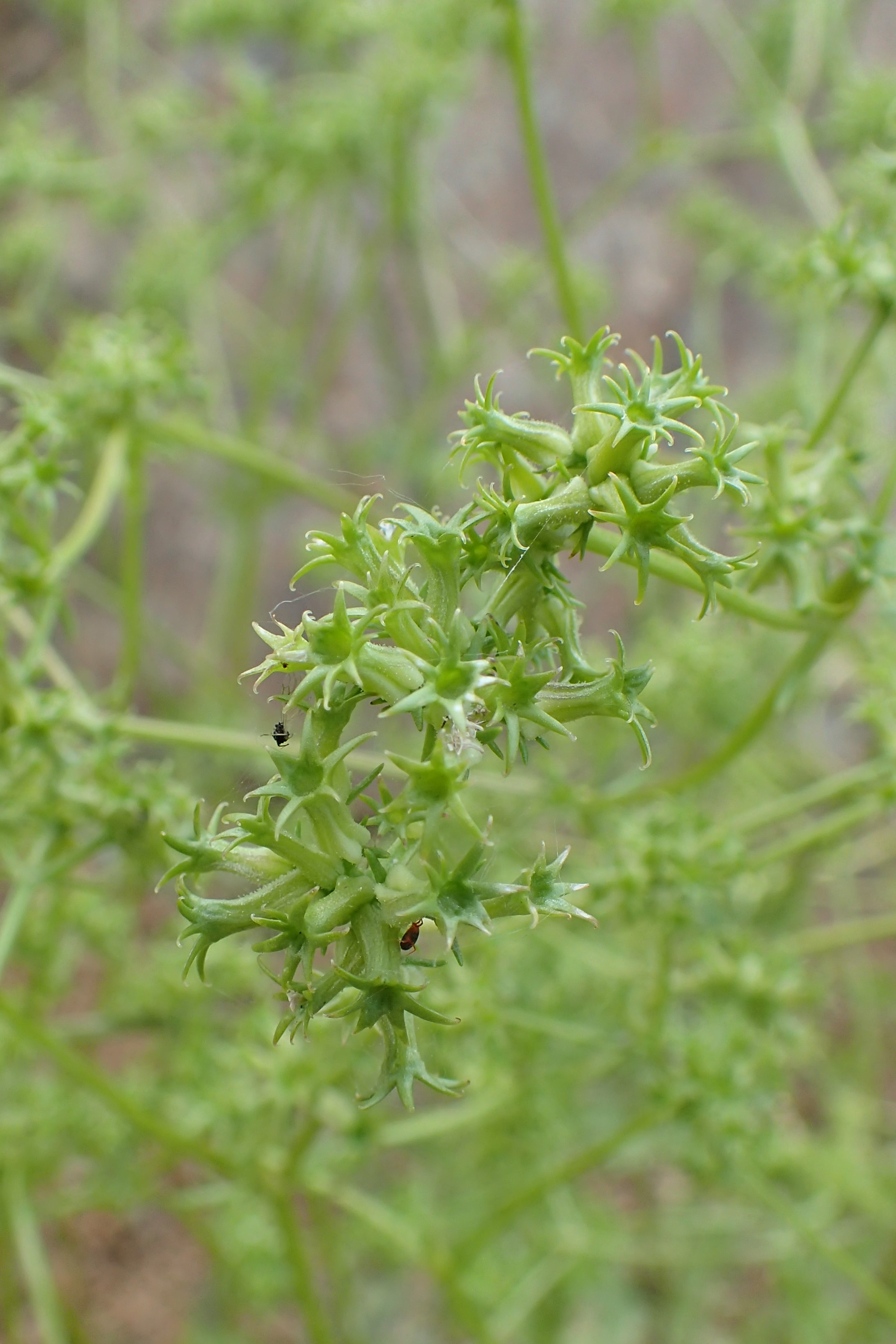 Valerianella uncinata in Tsav (Armenia)